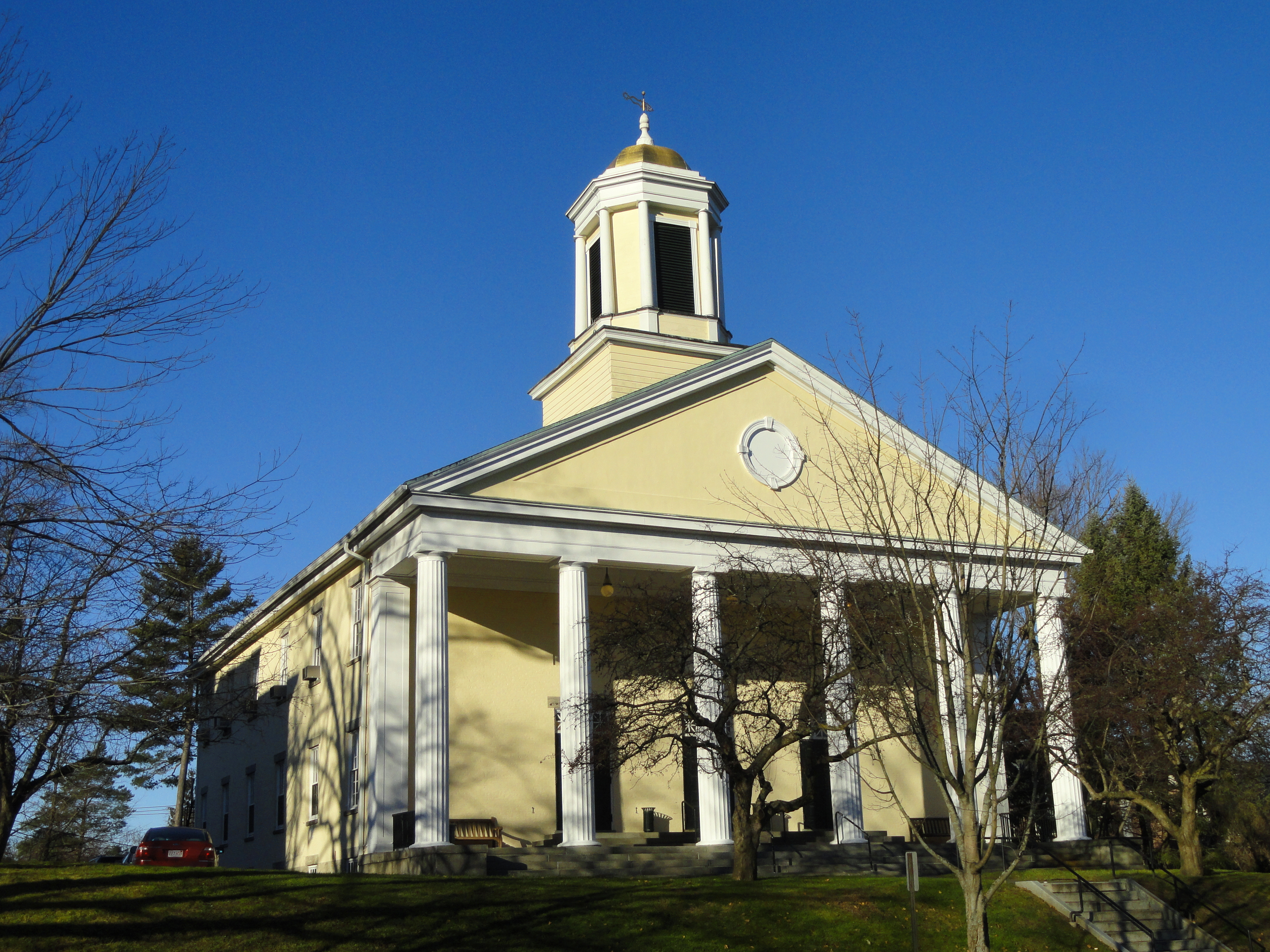 College Hall - Amherst College, Amherst, Massachusetts, USA.